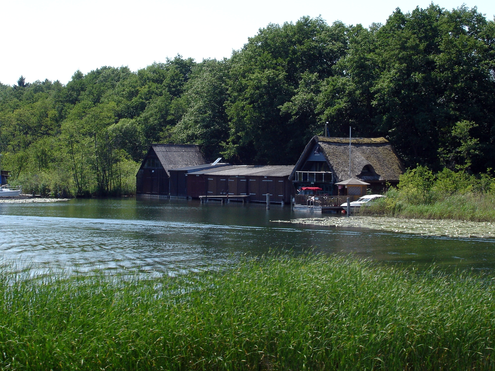 Boathouse in Reeckkanal (channel between the lakes Binnenmüritz and Kölpinsee), Mecklenburg-Vorpommern, Germany